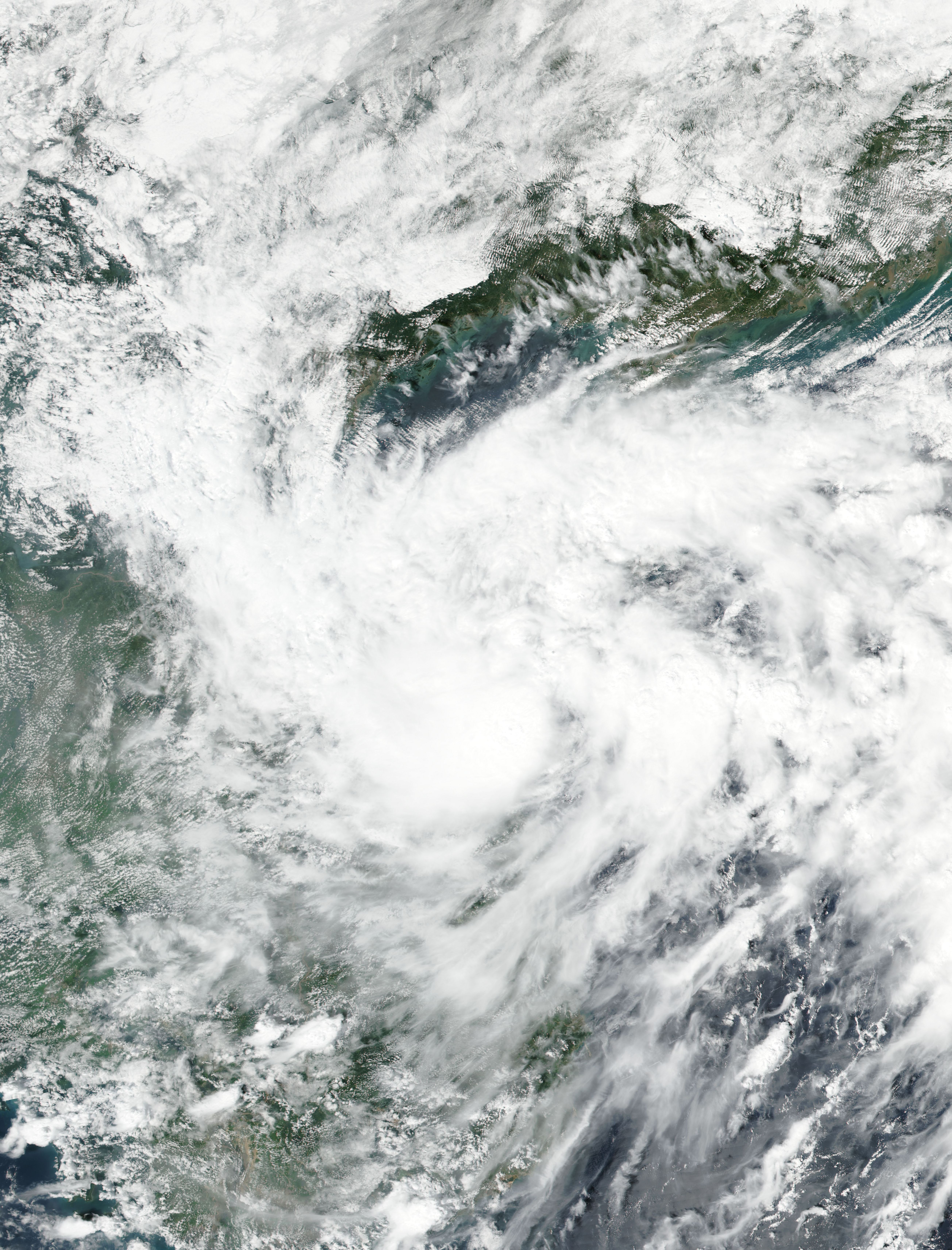 Tropical Depression Aere shortly before Vietnamese landfall on October 13, 2016